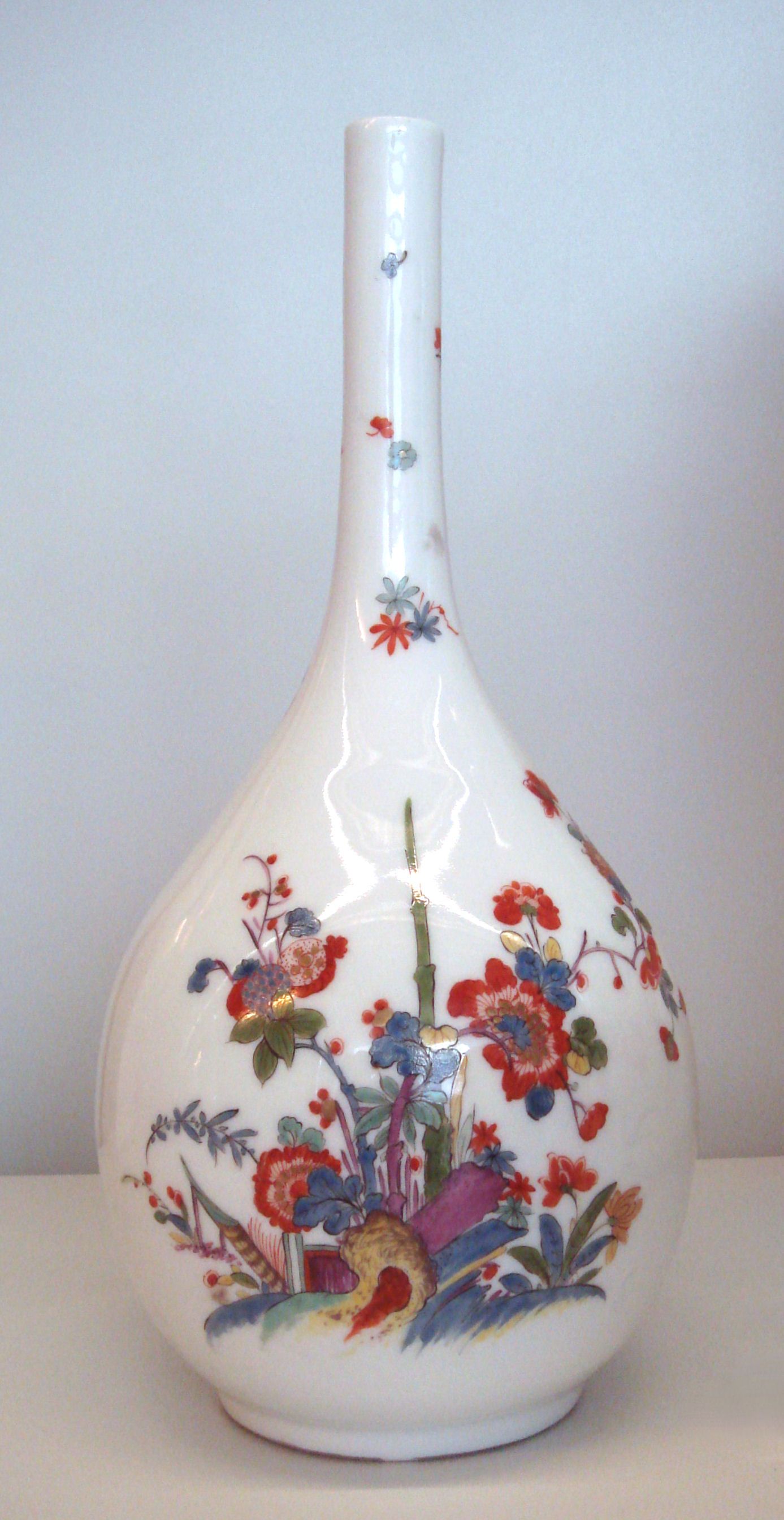 Meissen hard porcelain vase circa 1730 with decoration in Kakiemon style, Inventory number 31710